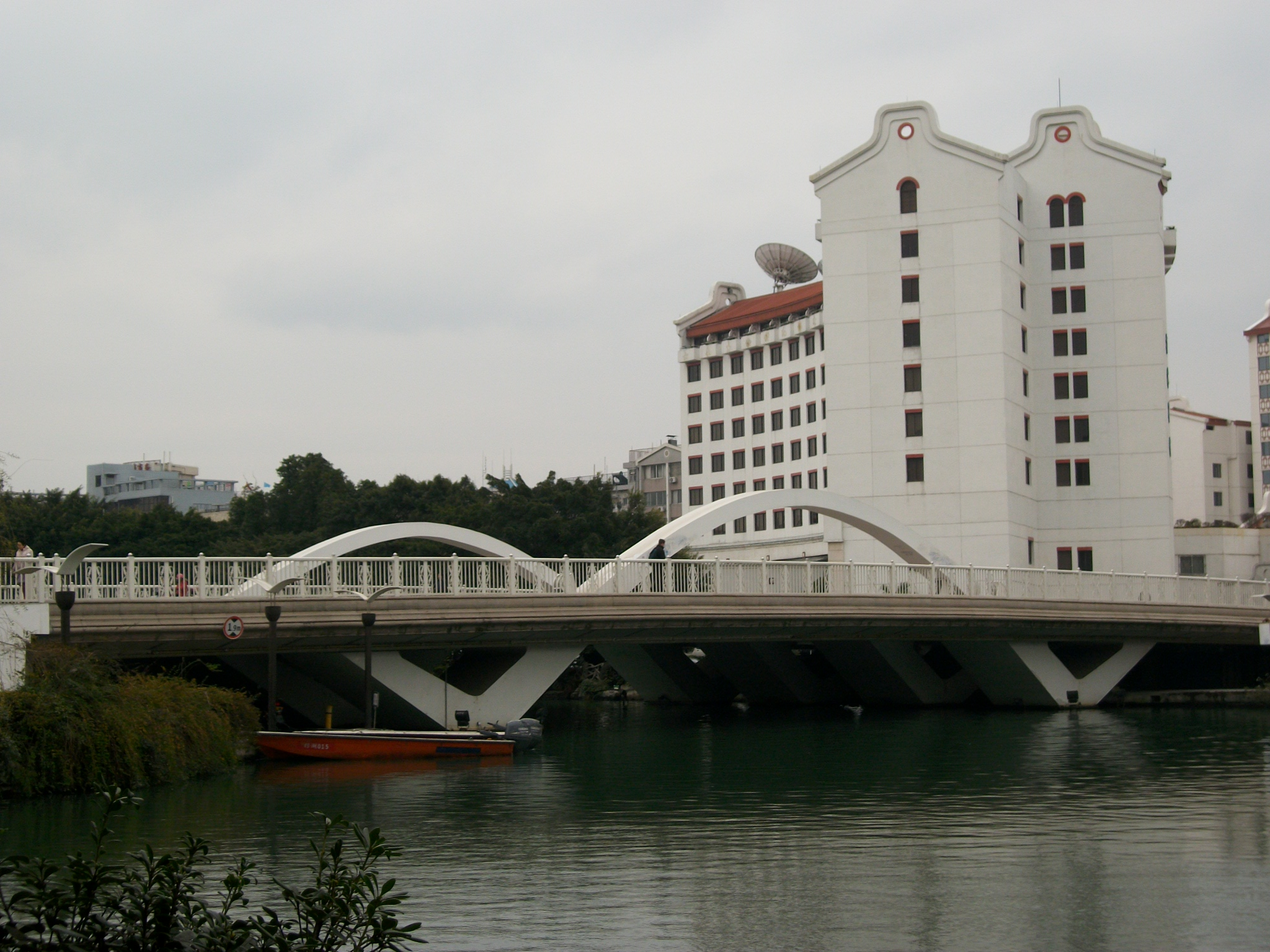 Xinyi Bridge, Guilin.